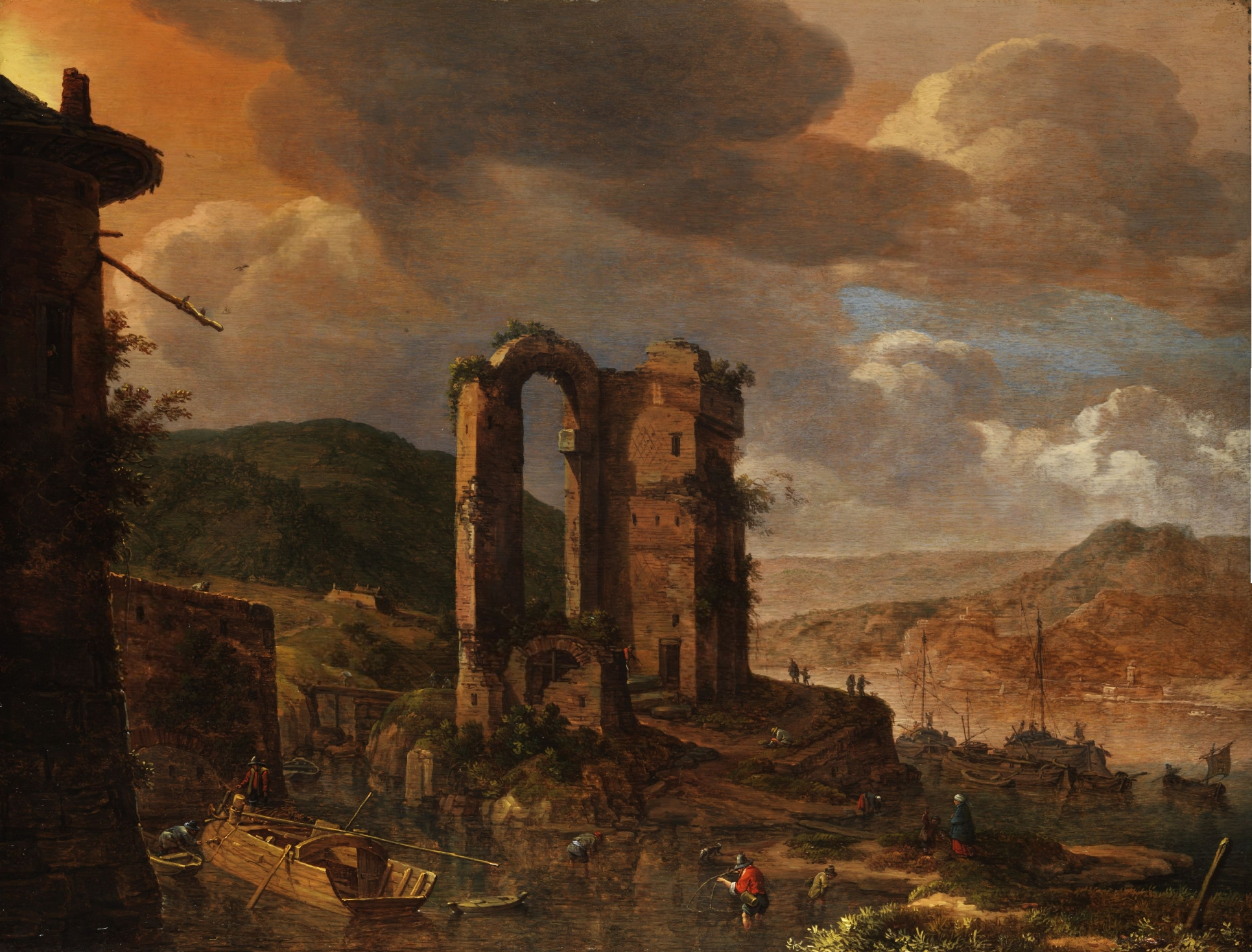 Landscape with roman ruin.label QS:Lde,"Landschaft mit römischer Ruine."label QS:Len,"Landscape with roman ruin."